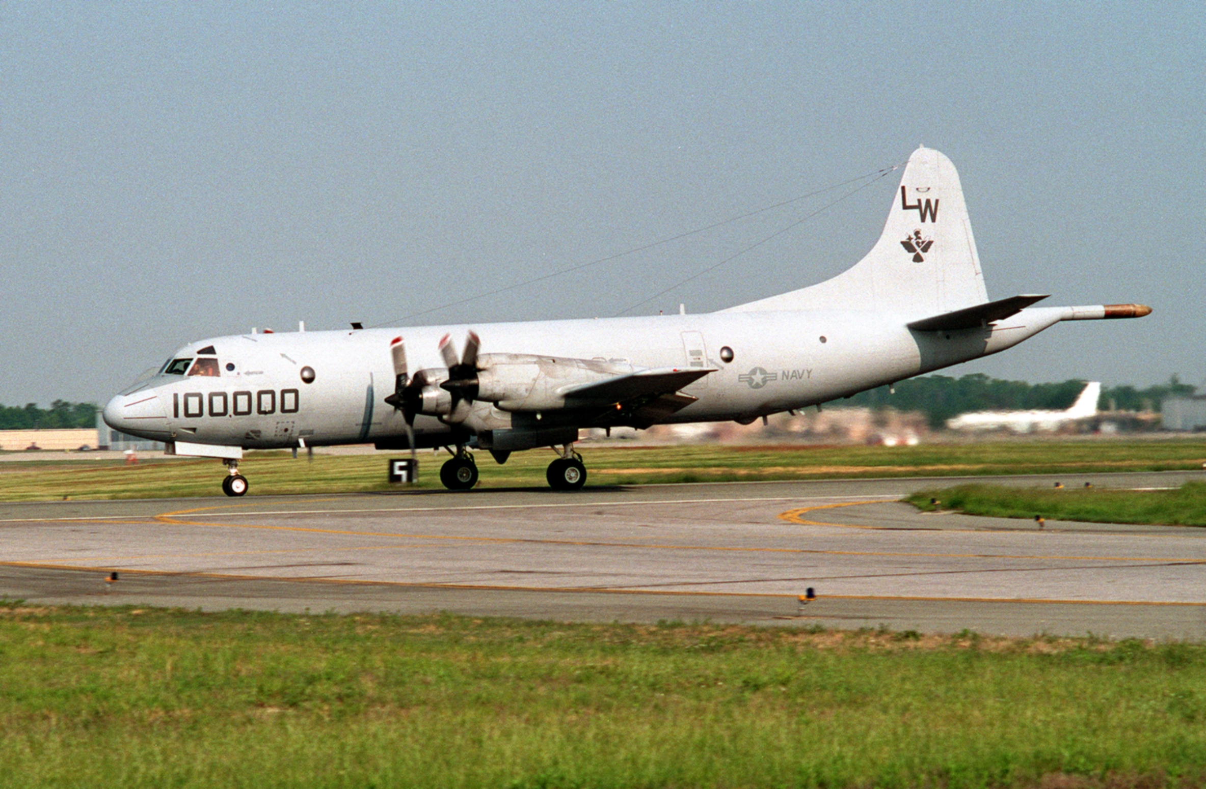 A U.S. Navy Lockheed P-3C Update I Orion aircraft of Patrol Squadron VP-68 Blackhawks, taxing toward the Naval Air Facility Washington, D.C. terminal after completing a training flight which set a new standard of aviation safety for the Naval Reserve by marking 100,000 mishap free flight hours. The squadron was commissioned in 1970 and compiled the safety record over the next 24 years, one flight at a time.